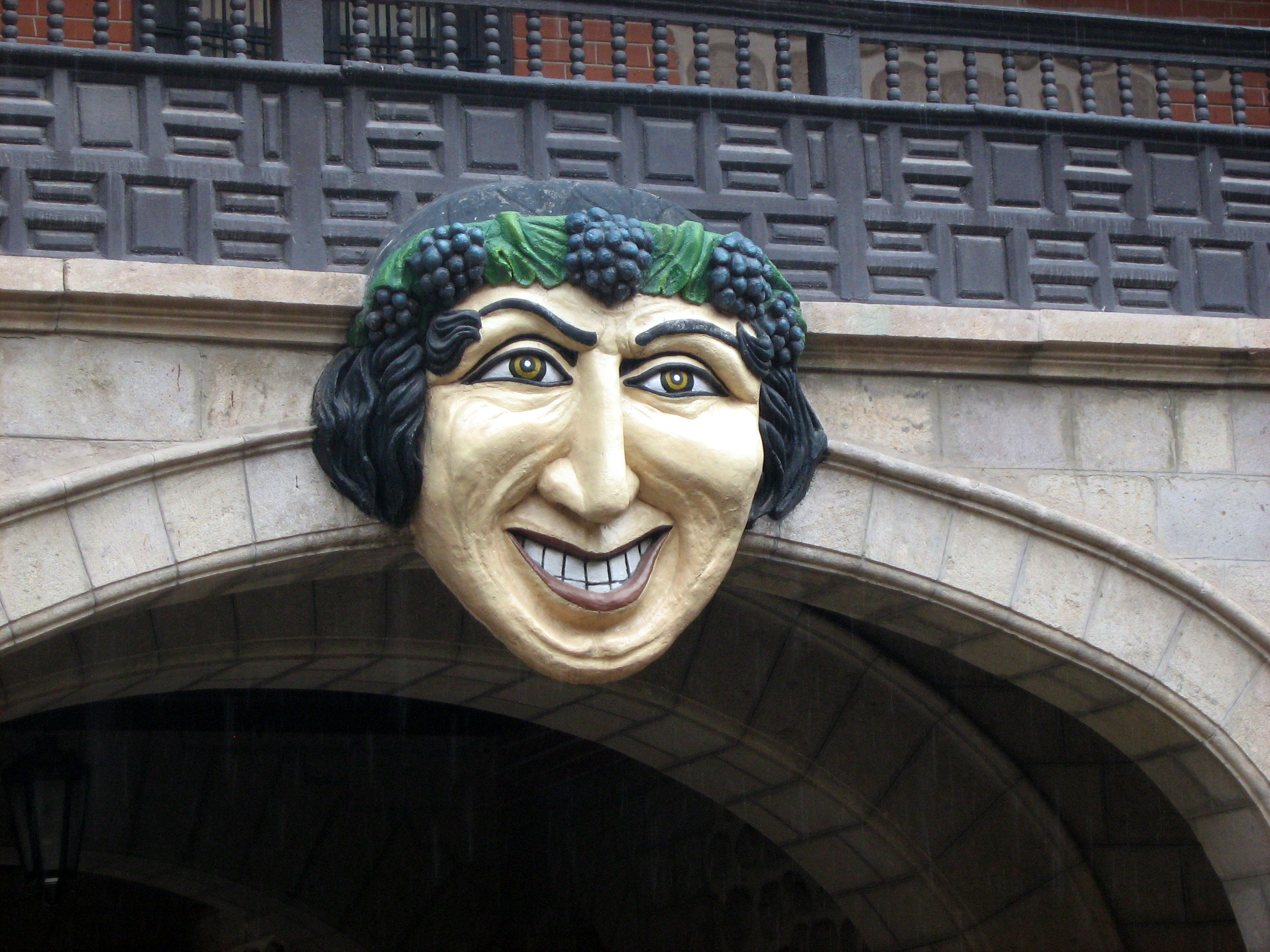 Please, have this description accessible to all by translating it in different languages.